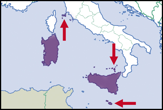 Lehmannia melitensis (Lessona & Pollonera, 1882). Distributional range in Europe, scientific state of knowledge of 2012. Source description in English. Light colour indicated rare occurrences or regions where the species could eventually be expected to occur. Dark colour indicated relatively reliable occurrences, as well as regions where the species was expected to occur, and where the species was not known to be extremely rare. Dark colour indications were not necessarily based on published records. Species summary in AnimalBase